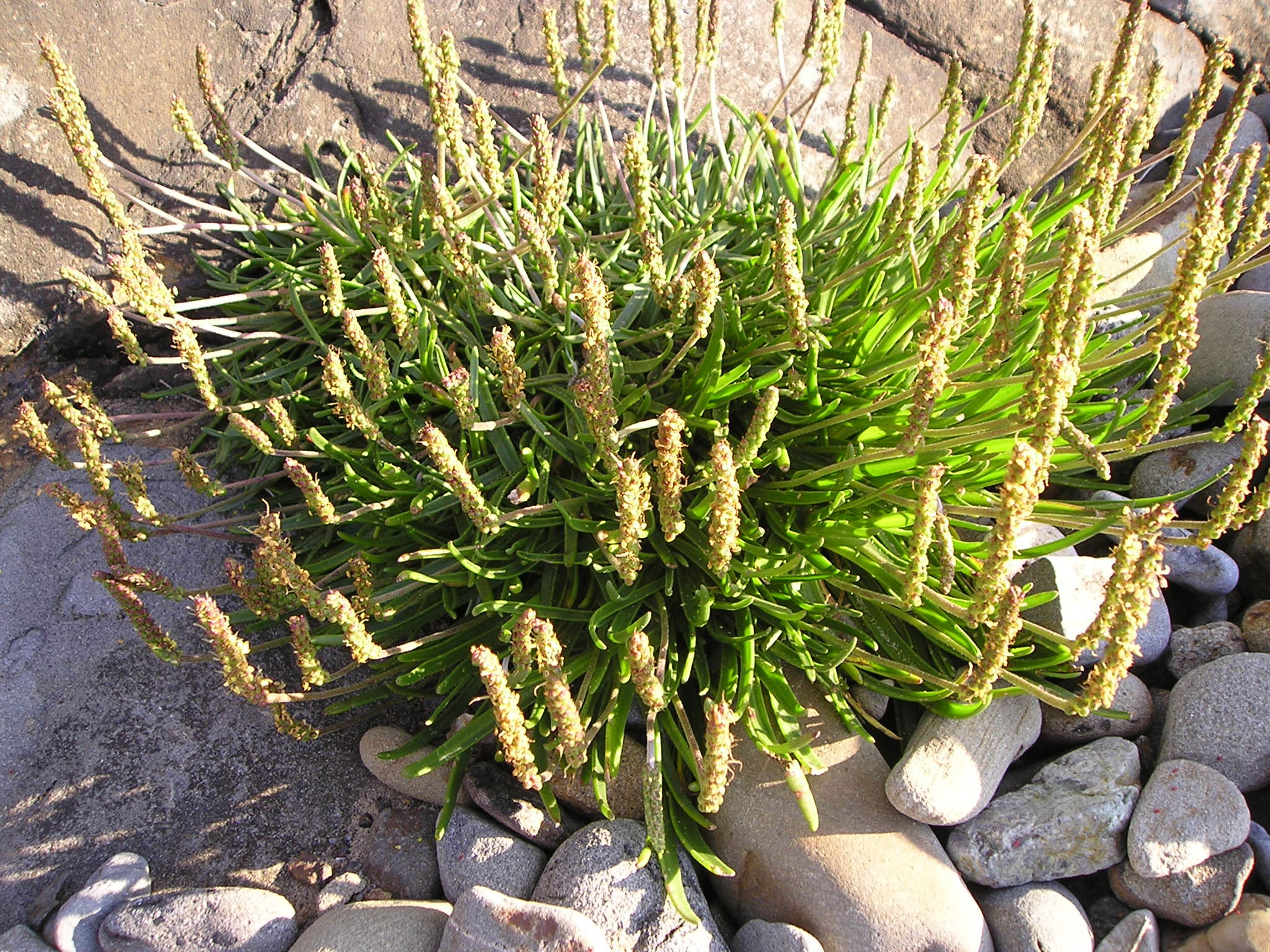 Plantago maratima, sea plantain.